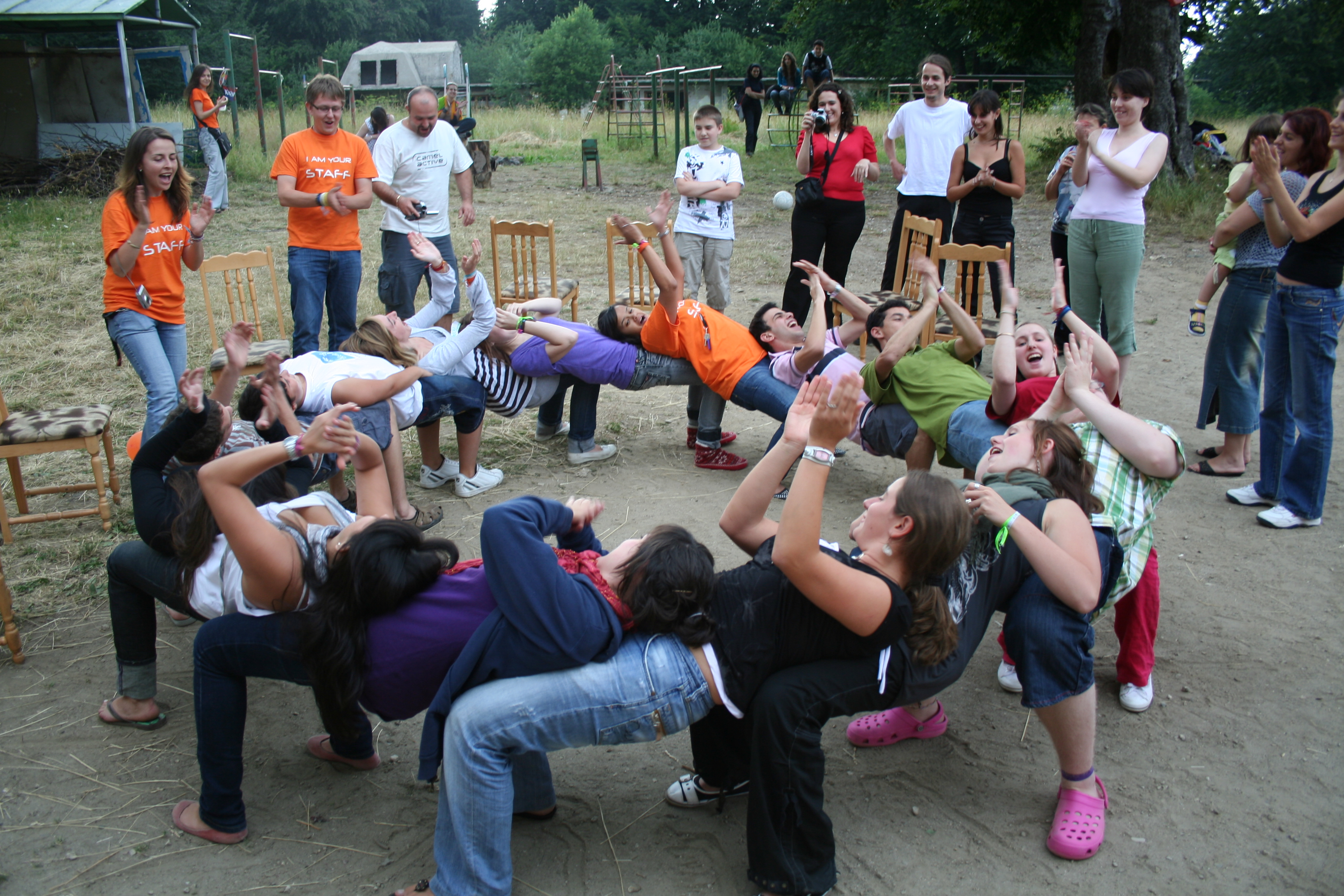 A CISV educational activity - a trust game